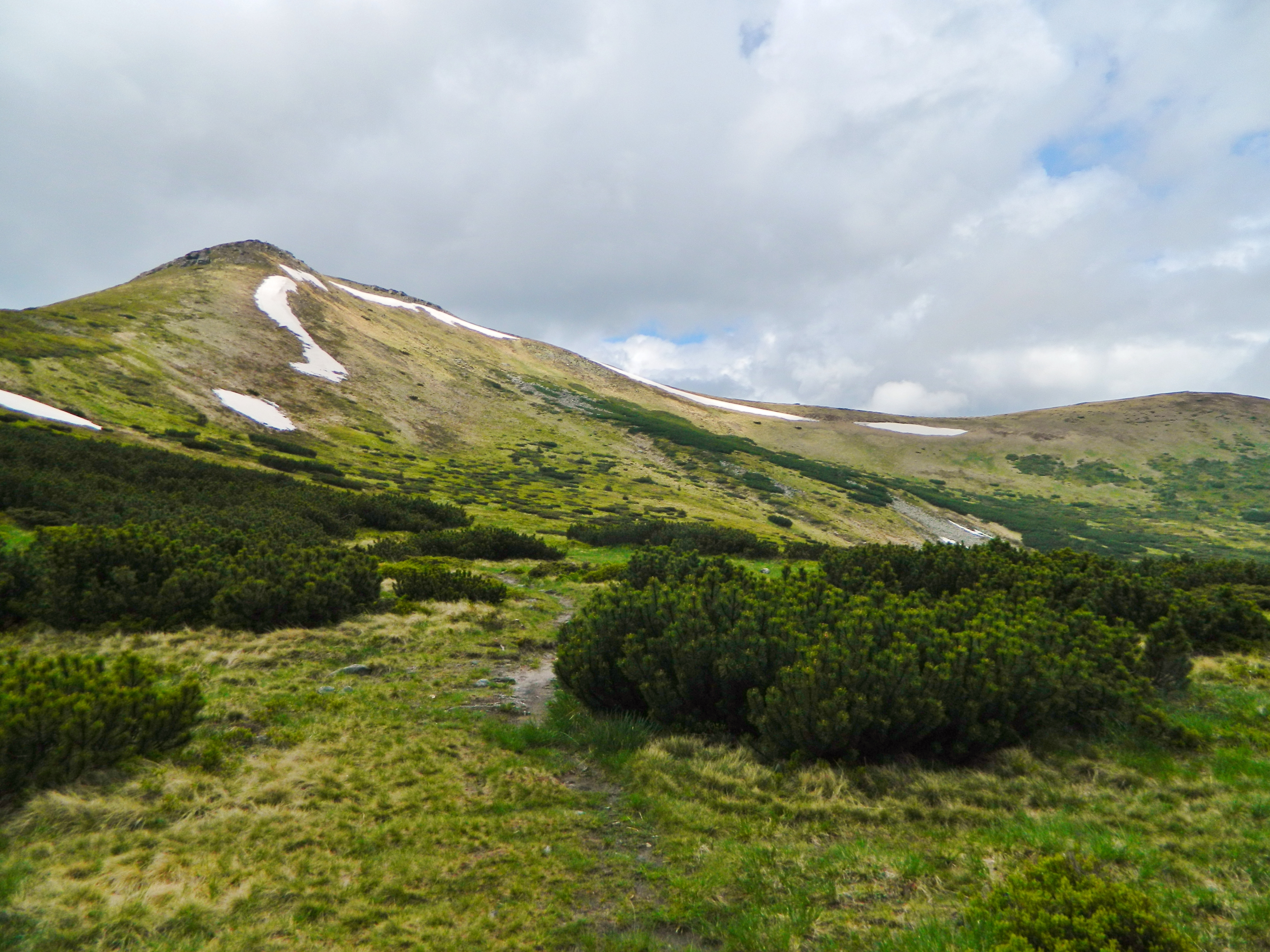 Pinus mugo near Nesamovyte lake, foothills of Turkul, Chornohora, Ukraine